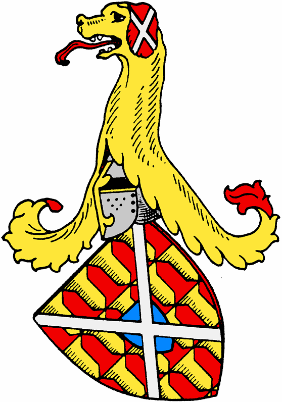 Coats Of Arms of the nobel Oettingen (Öttingen) family of Germany